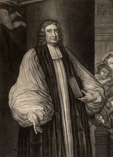 Portrait of Hugh Boulter (1672-1742), Archbishop of Armagh.